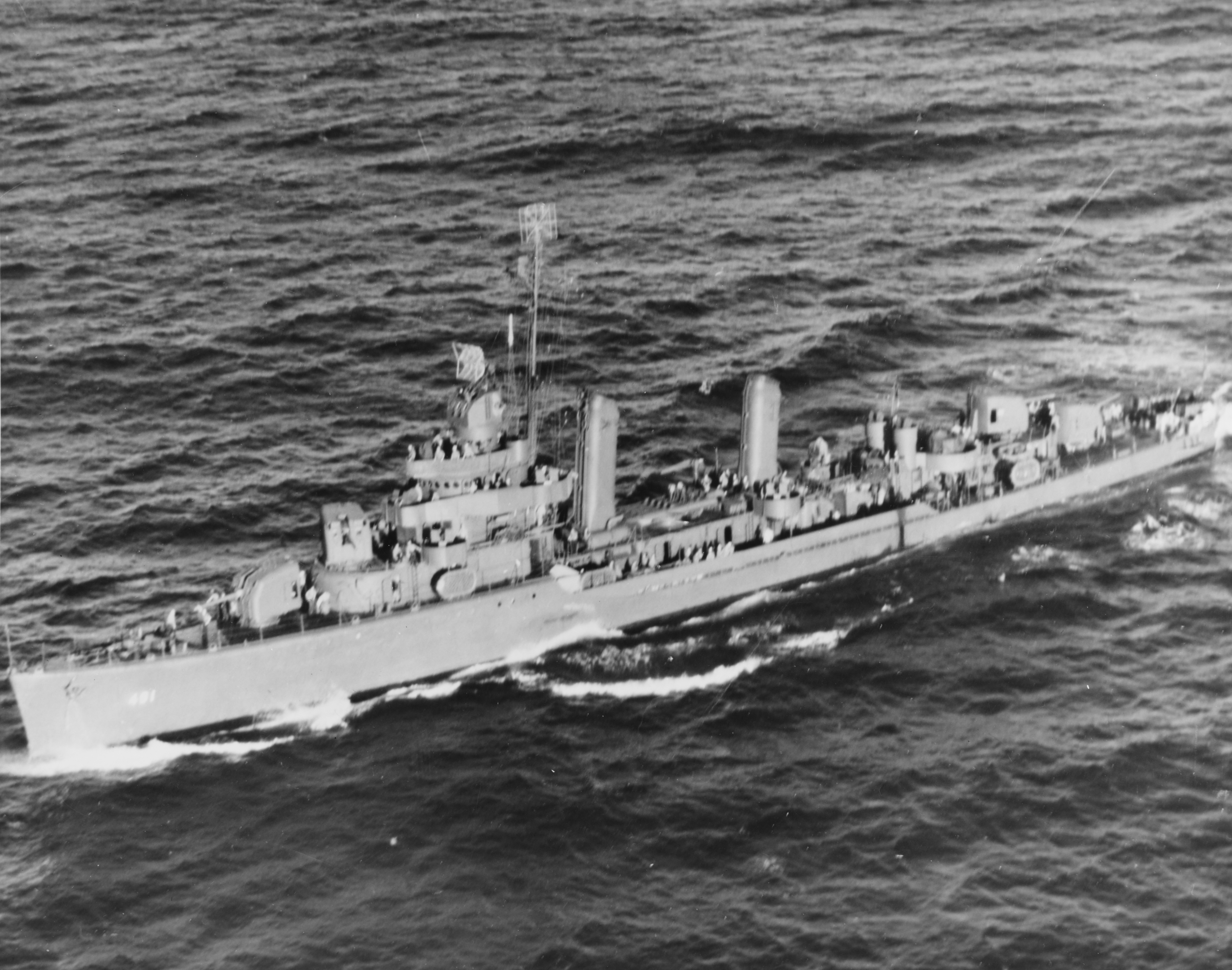 The U.S. Navy destroyer USS Farenholt (DD-491) off Pearl Harbor, circa May 1943.